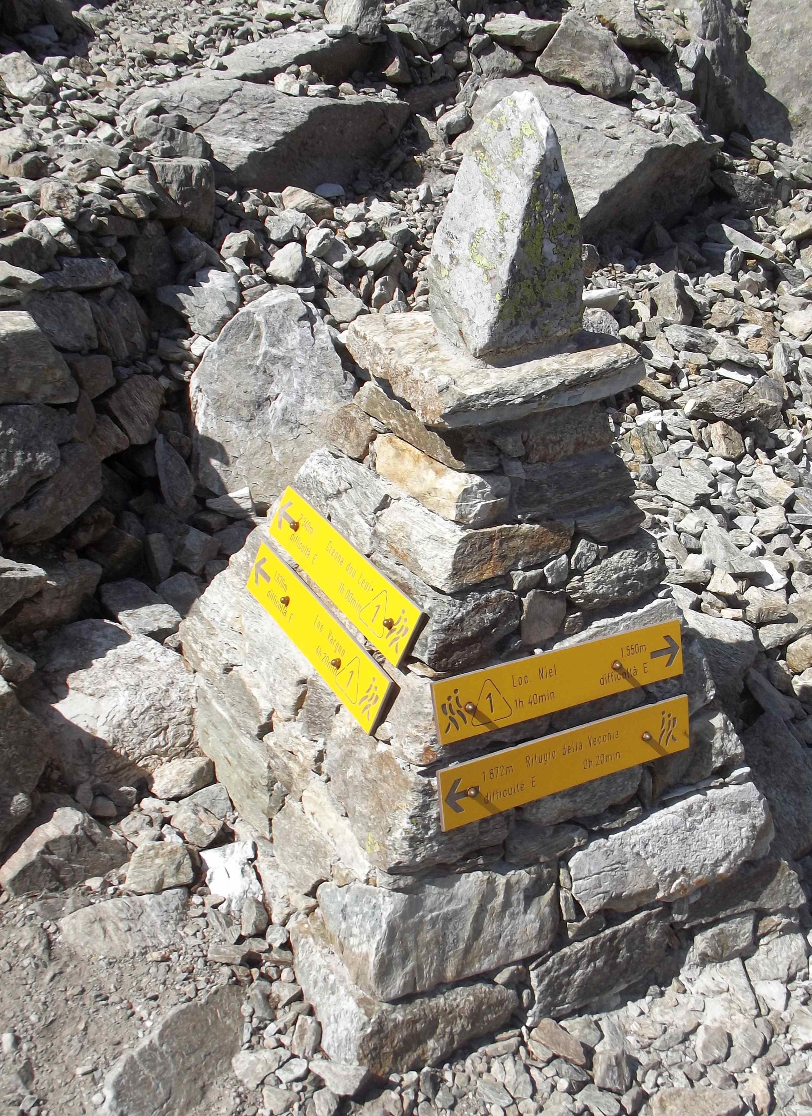 Colle della Vecchia (Alpi Biellesi)